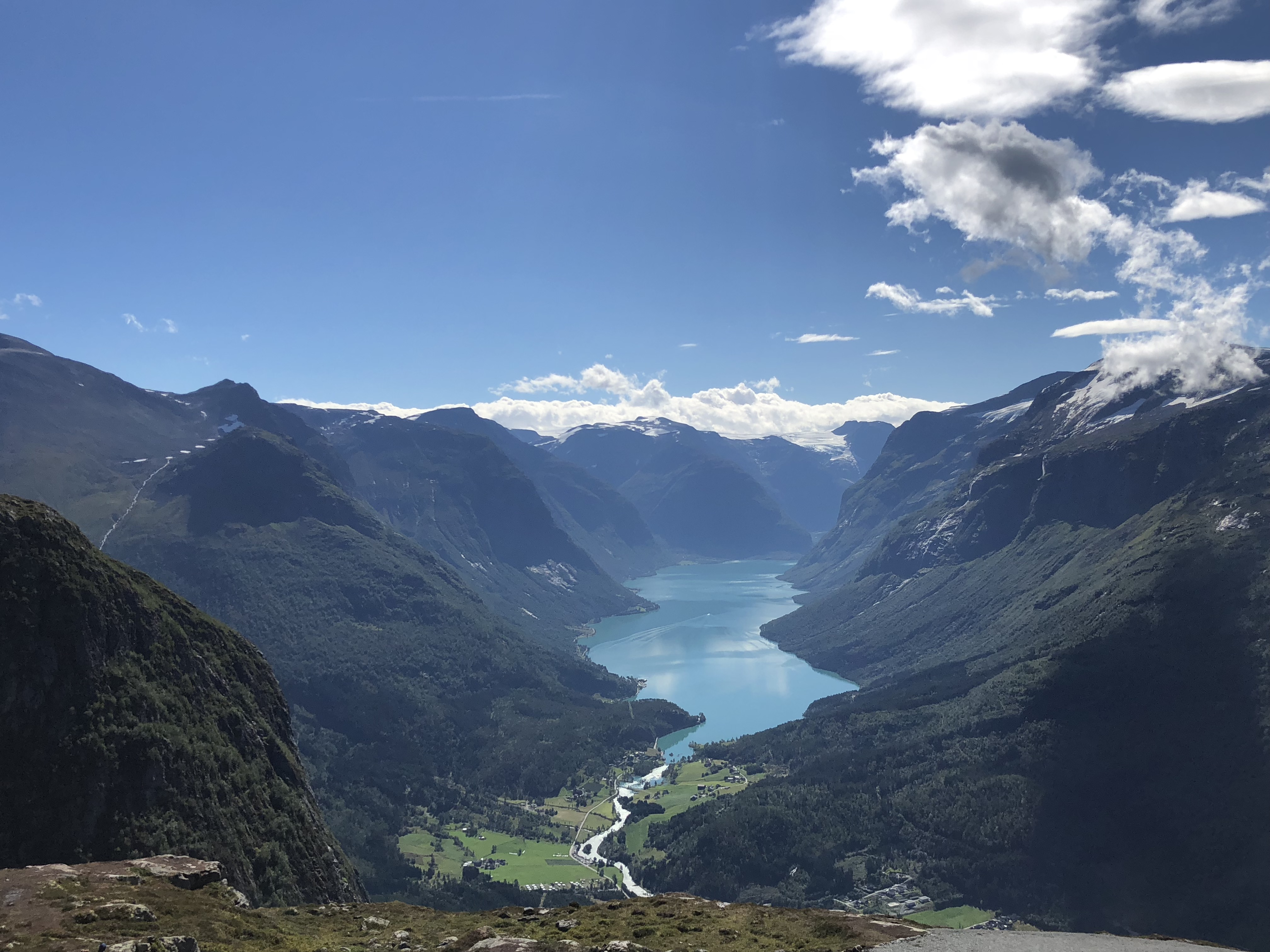 Lovatnet Lake, Loen, Stryn, viewed from Mt. Hoven (1011 m)